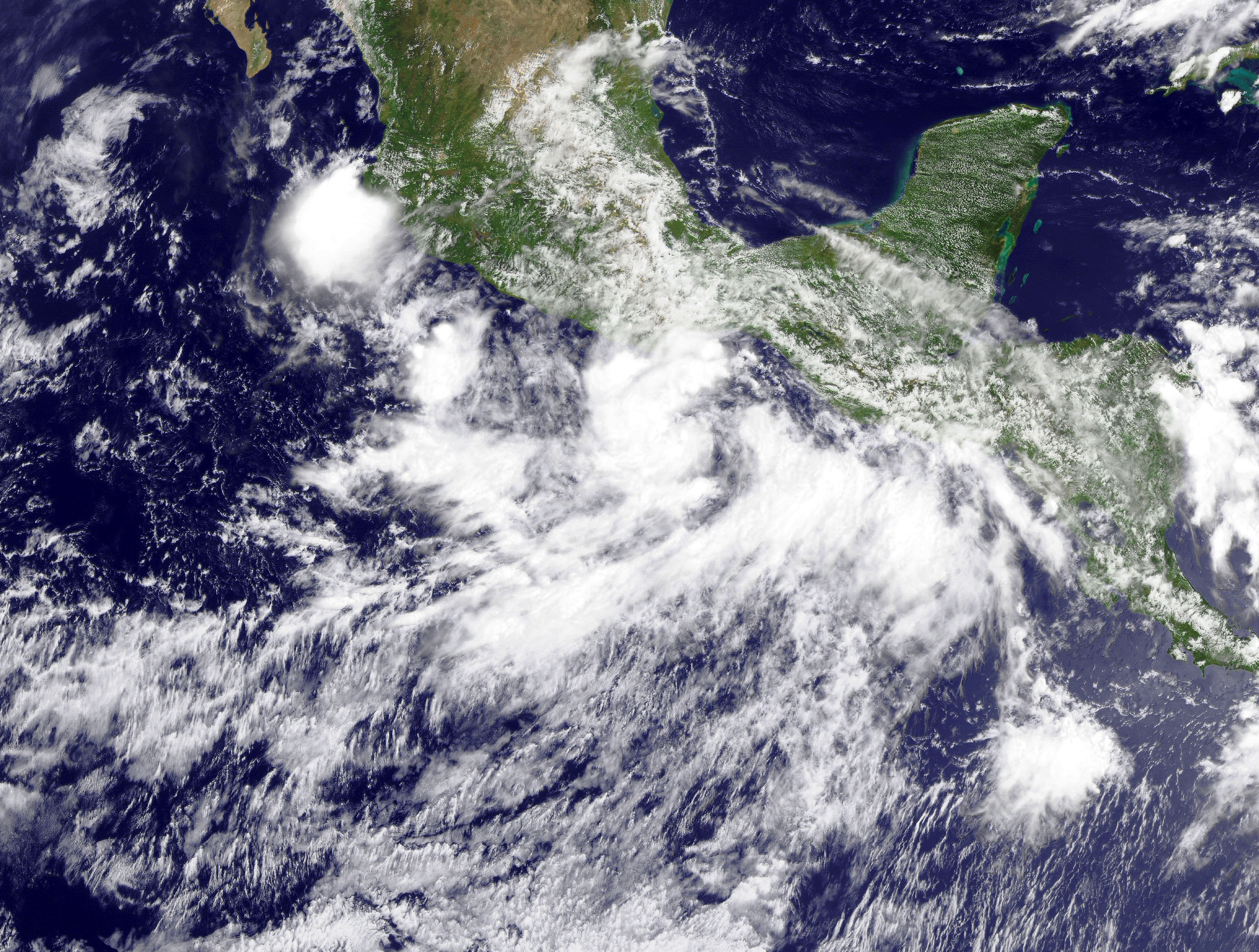 Tropical Storm Frank gaining strength on August 22, 2010.